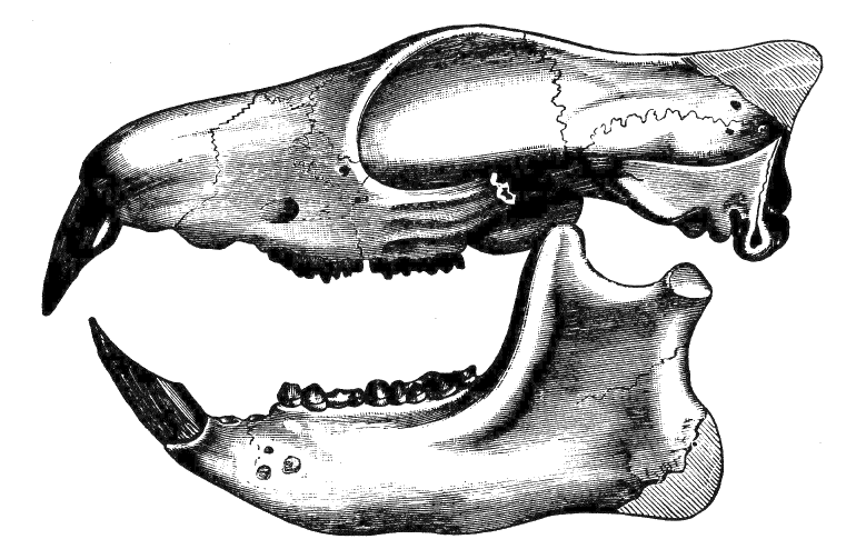 Fig. 247.—Tillotherium fodiens. Left lateral view of skull. (From Flower, after Marsh.) According to Paleobiology Datebase, referred to genus Tillodon.